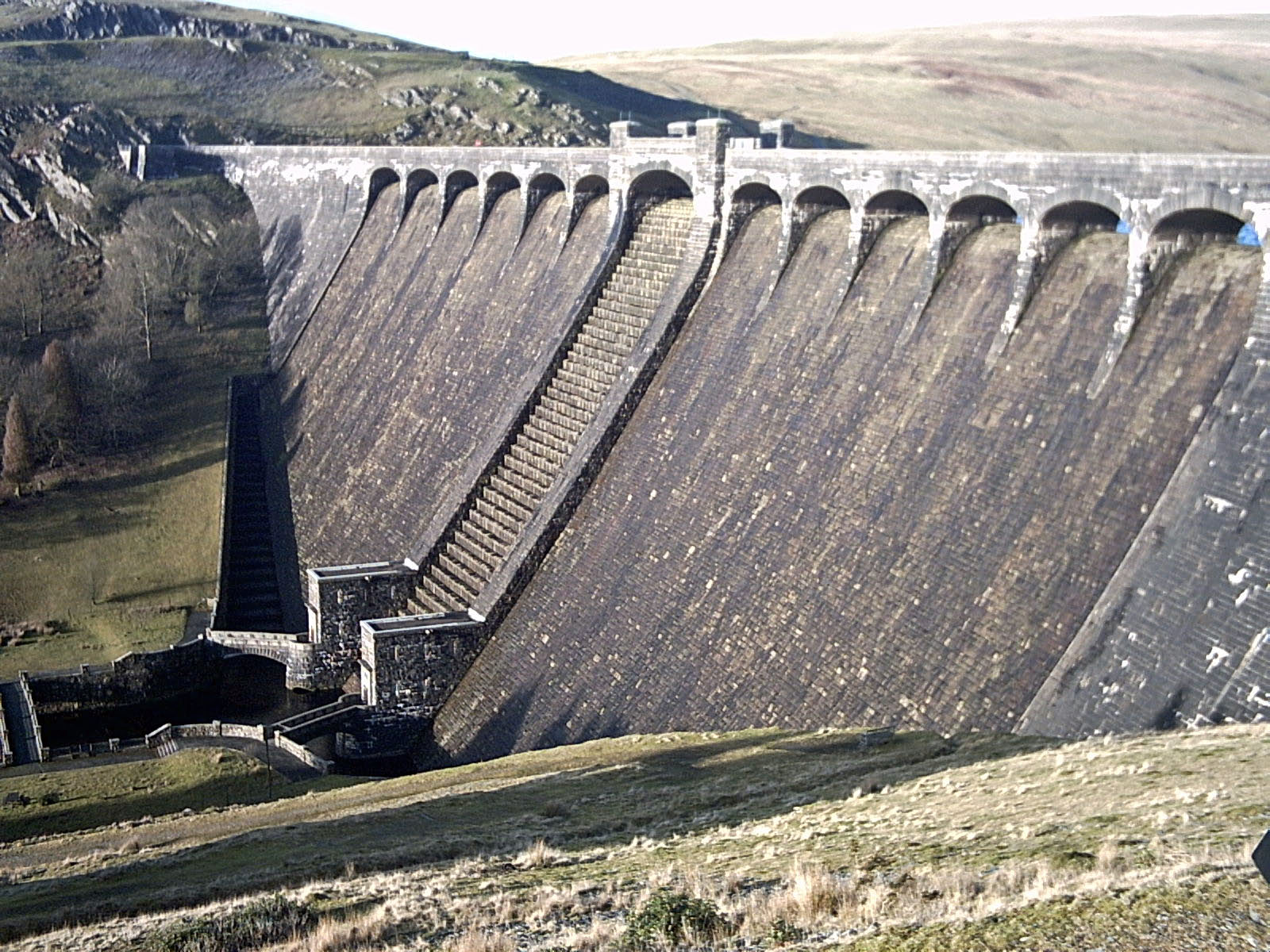 Claerwen Dam (Downstream Face) James McElroy 2005